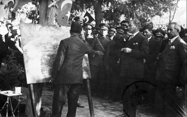 Mustafa Kemal in Sivas during the campaign for the new Turkish alphabet.